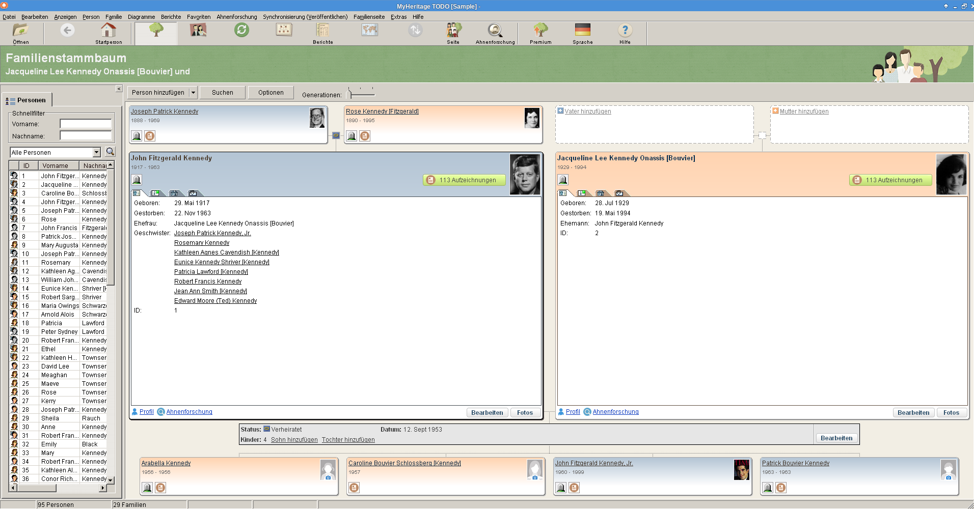 Screenshot of MyHeritage 8.x